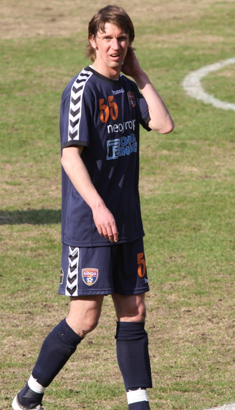 Andrius Gedgaudas playing for Banga Gargždai.